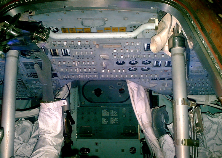 The control panel of the Apollo 13 capsule. Photo taken July 17 at the Kansas Cosmosphere and Space Center in Hutchinson.